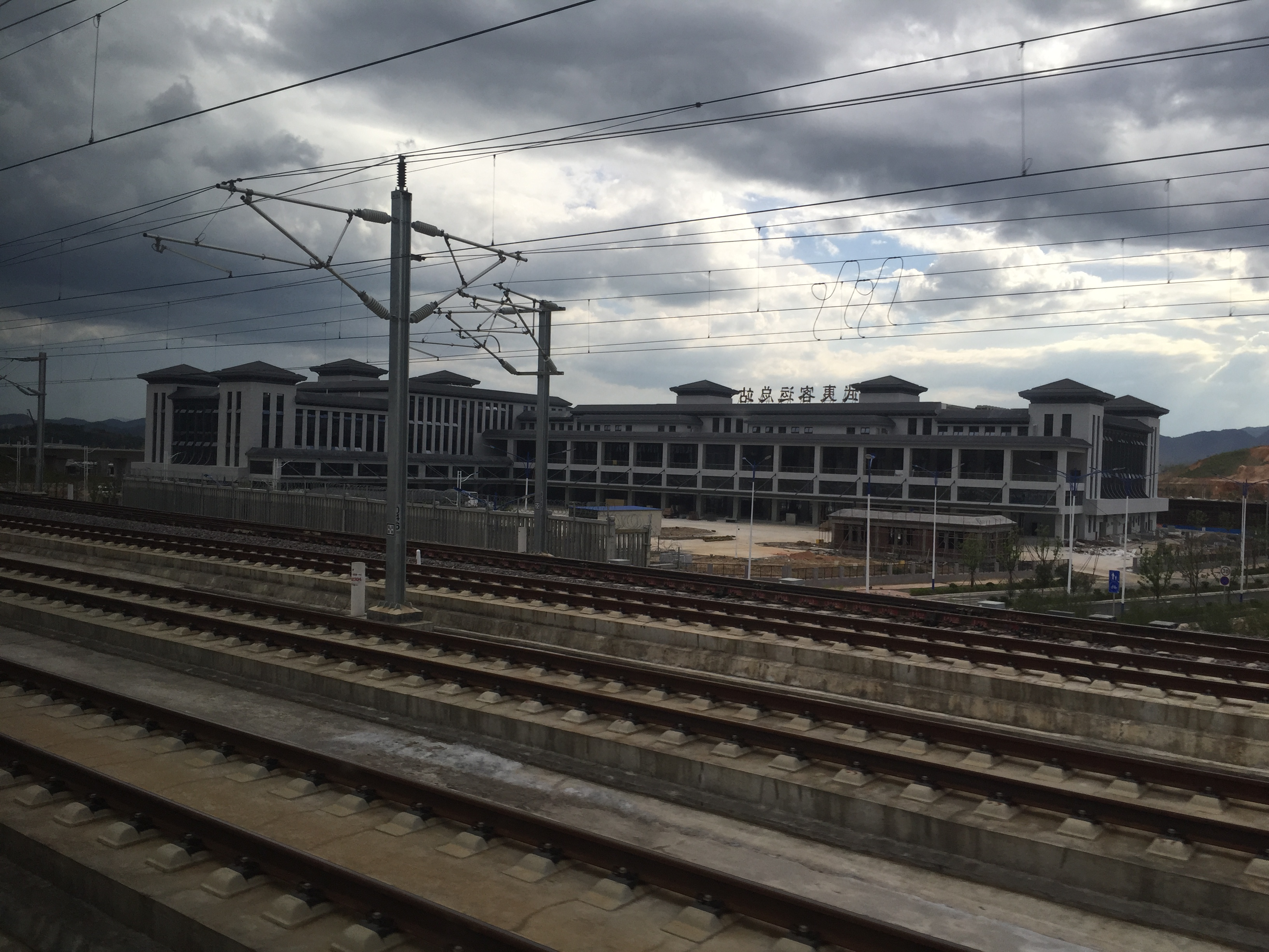 Maybe a compensation...